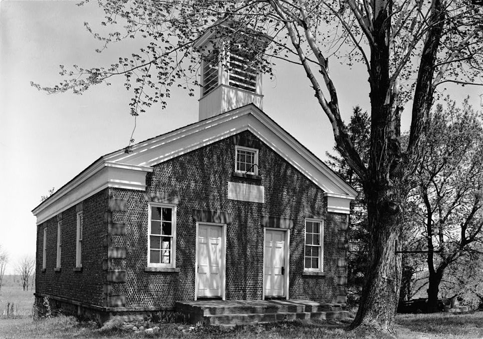 Cobblestone Schoolhouse, Ridge Road (U.S. Route 104), Childs, Orleans County, NY. Main (South) Elevation. Image has been cropped.